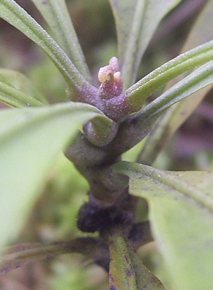 Detail of shoot Triphyophyllum peltatum